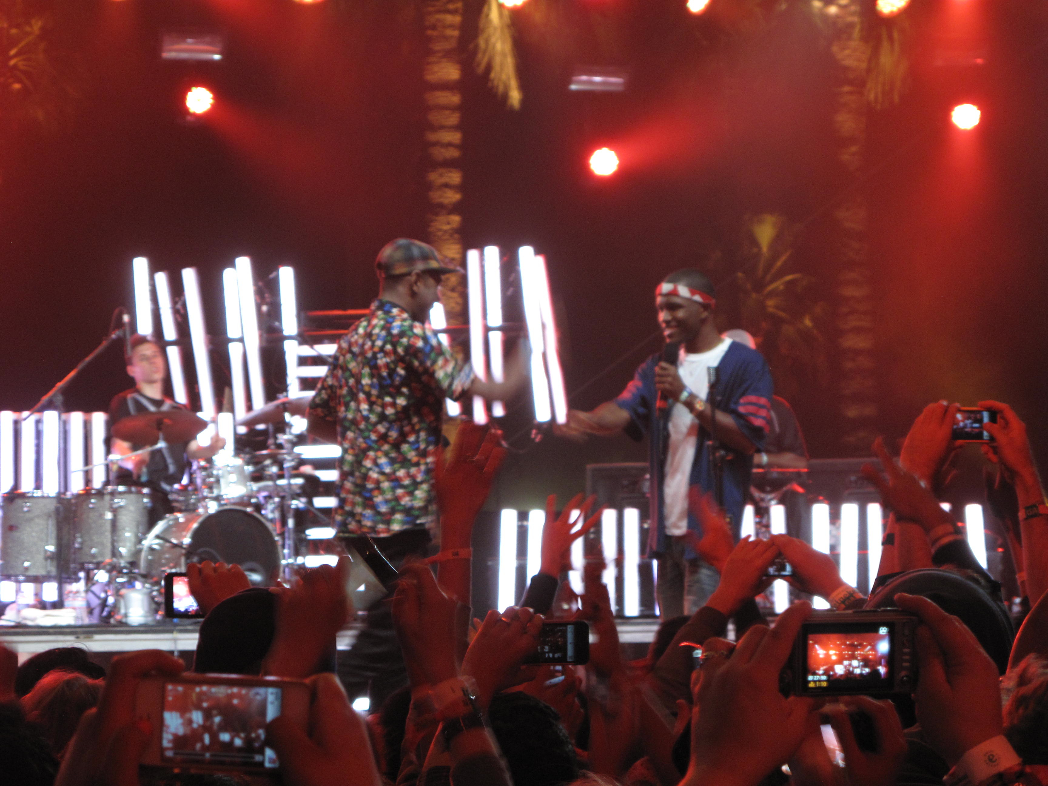 Tyler, the Creator and Frank Ocean greet each other on stage at Coachella, 2012.